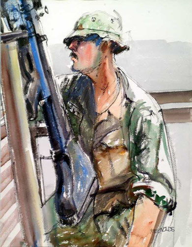 COMBAT ENGINEER by Victory V. Reynolds, CAT VIII, 1969, Courtesy of the National Museum of the U.S. Army